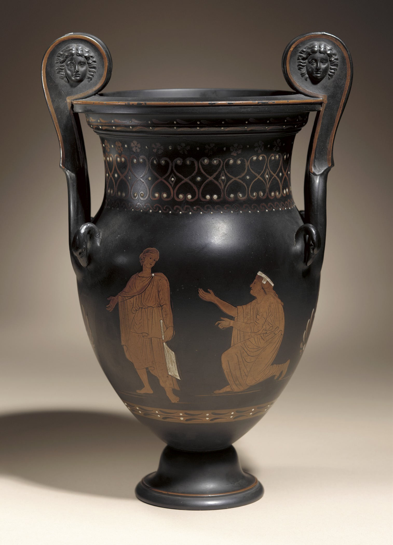 England, circa 1780 Furnishings; Serviceware Stoneware with metallic-oxide stain, slip decoration, and enamel; encaustic decoration (black basalt) 11 5/8 x 7 5/8 x 6 3/16 in. (29.53 x 19.37 x 15.72 cm) Gift of Mrs. Frederick J. Tongue in memory of her husband (M.82.46) Decorative Arts and Design Currently on public view: Ahmanson Building, floor 3